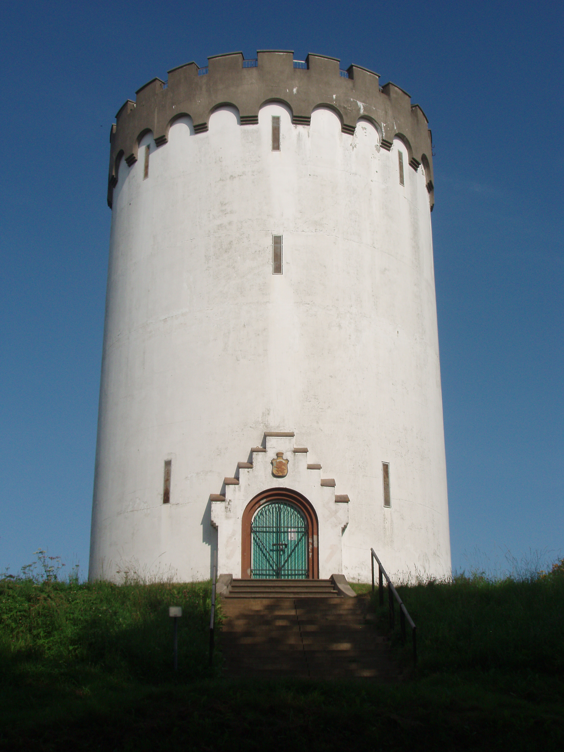 Water tower in Denmark